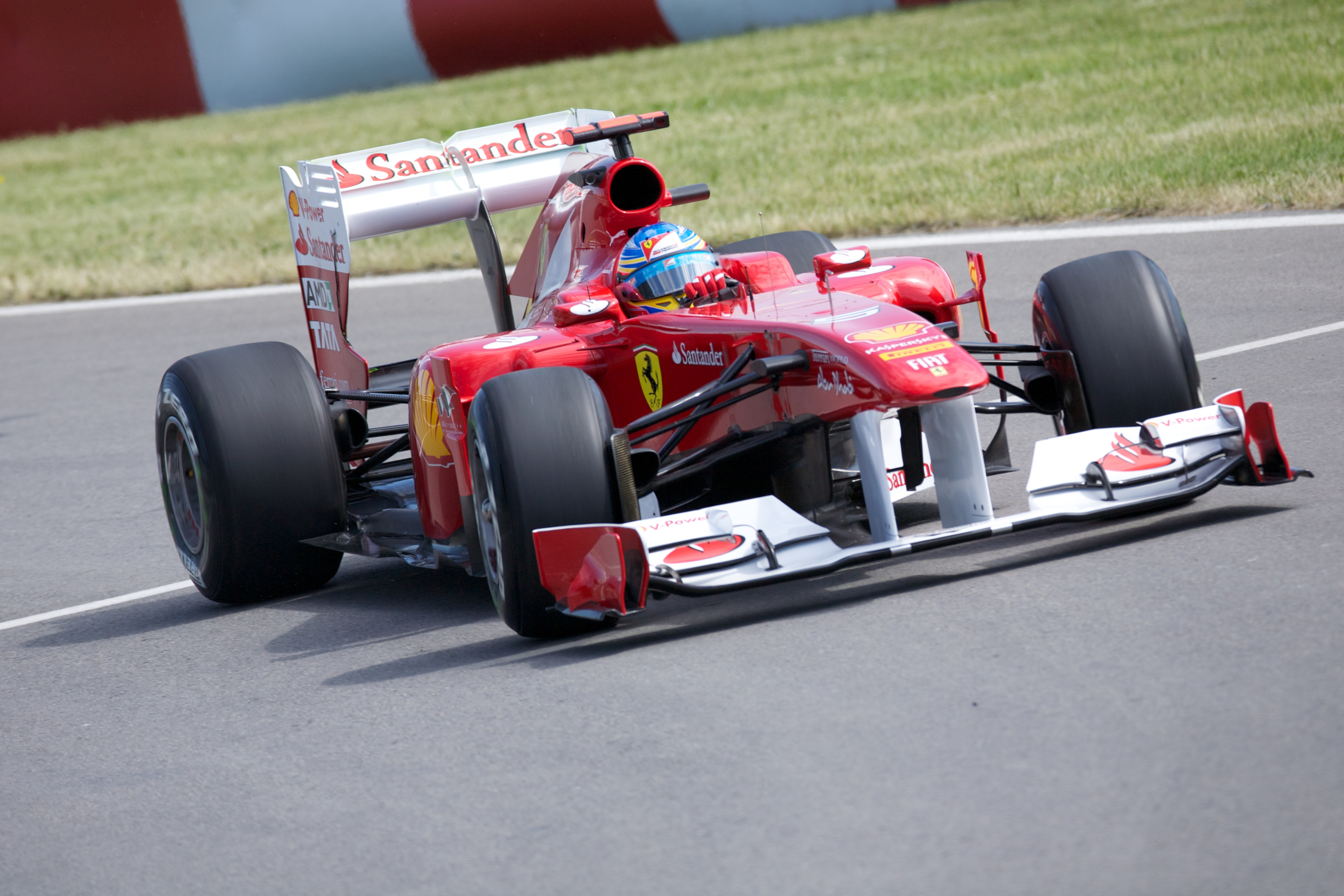 2011 Canadian Grand Prix